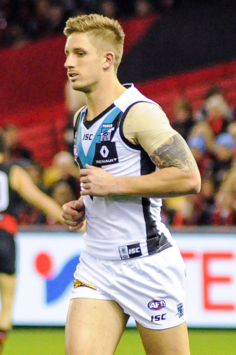 Hamish Hartlett during the AFL round twelve match between Essendon and Port Adelaide on 10 June 2017 at Etihad Stadium in Melbourne, Victoria.